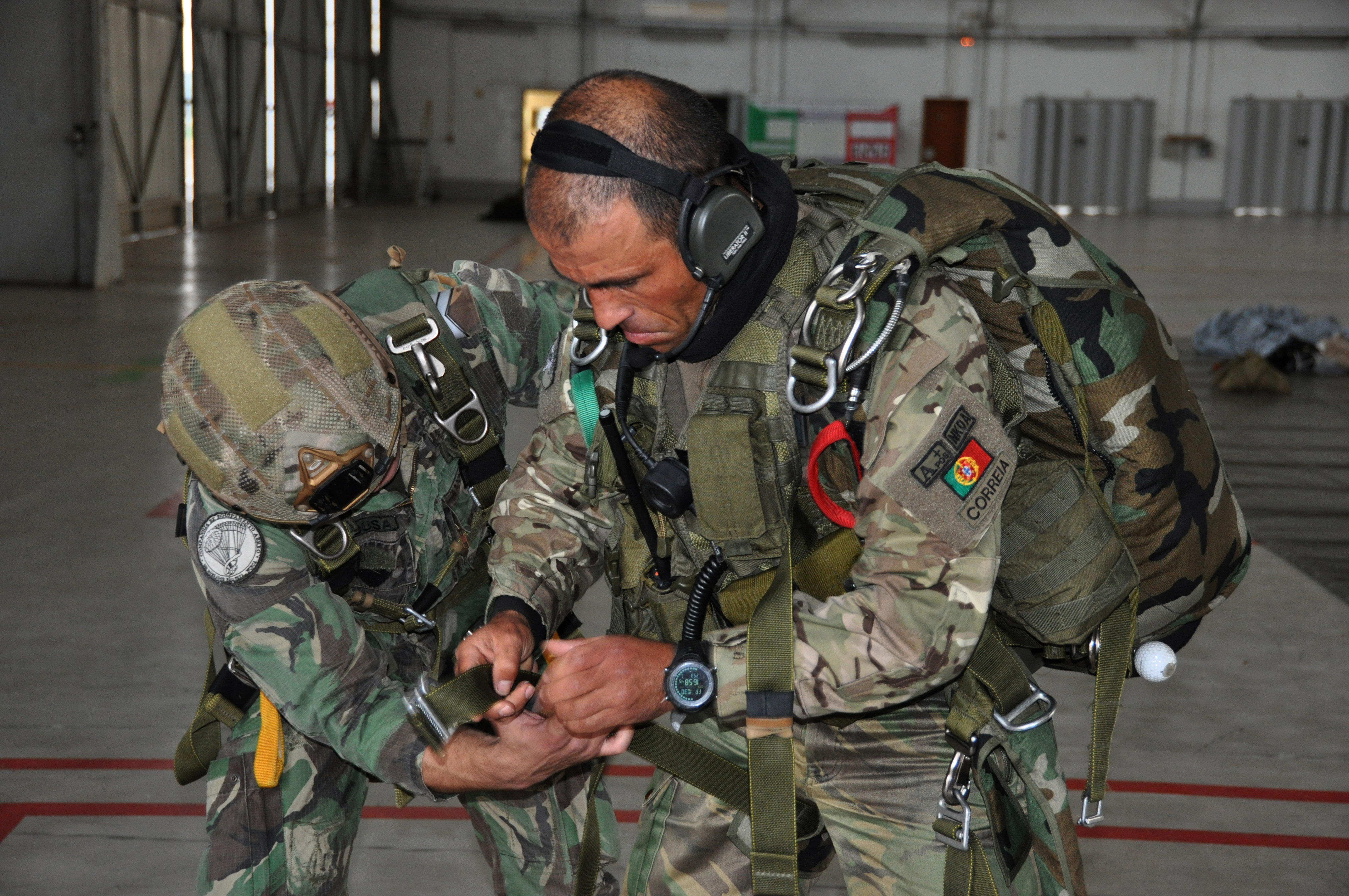 Portuguese High Altitude Paratroopers (Precusores) conducted high altitude training jumps from a USA V22-Osprey aircraft on October 30, 2015 during Trident Juncture 15. NATO photo by Serrano Rosa